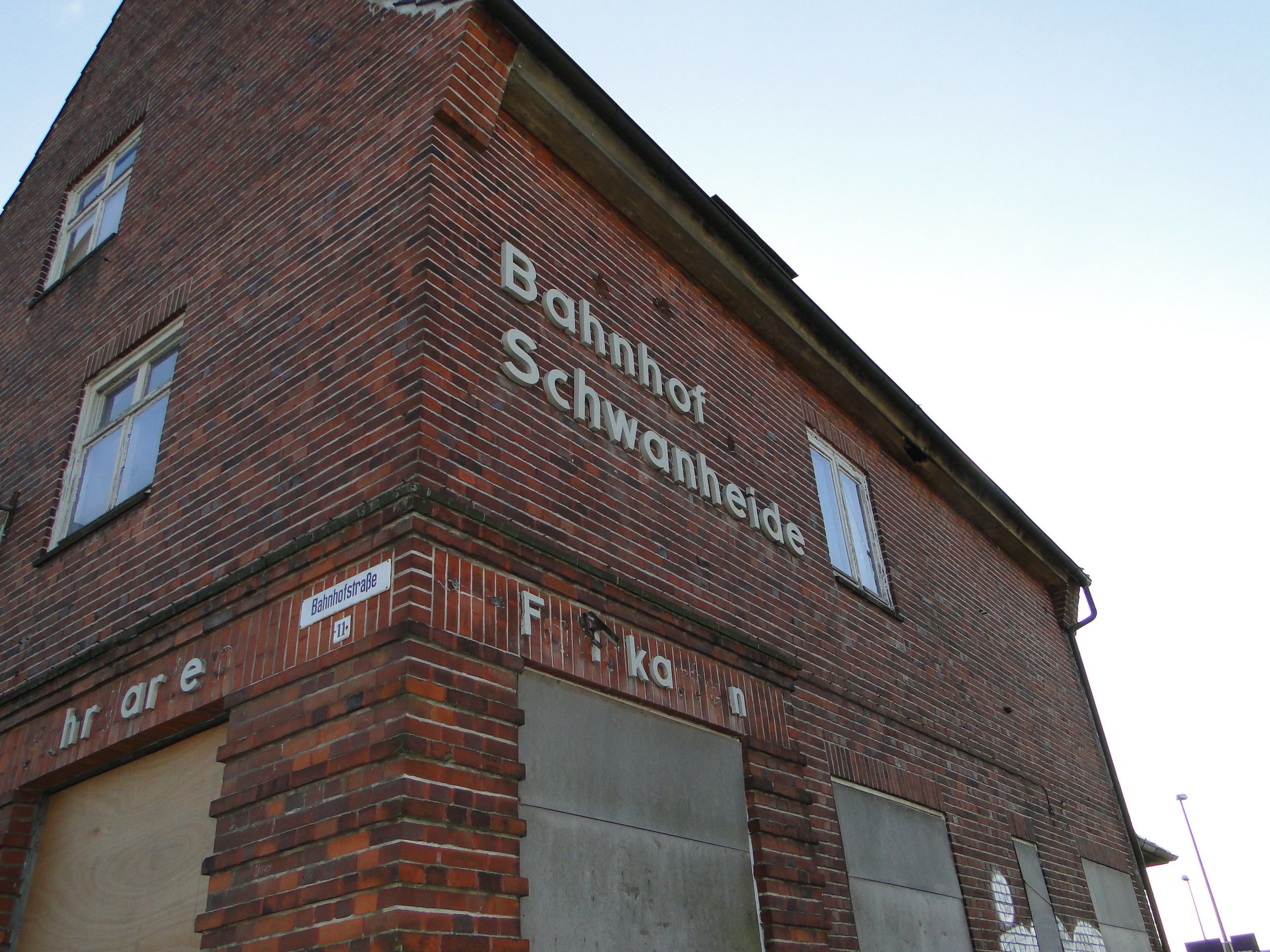 Train station in Schwanheide, district Ludwigslust, Mecklenburg-Vorpommern, Germany